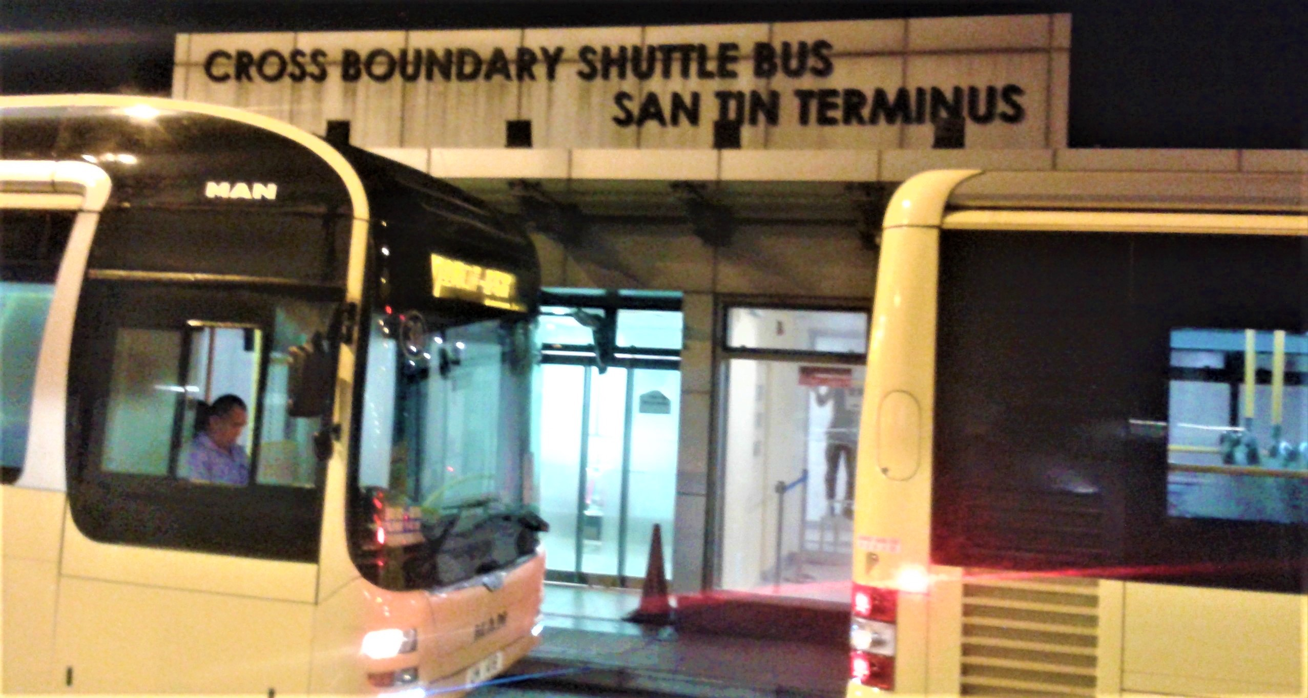 The Cross Boundary Shuttle Bus Terminus is at the core of San Tin Public Transport Interchange. The image shows the exit of the terminus to where the buses await passengers. The Terminus entrance is at the rear of the building.